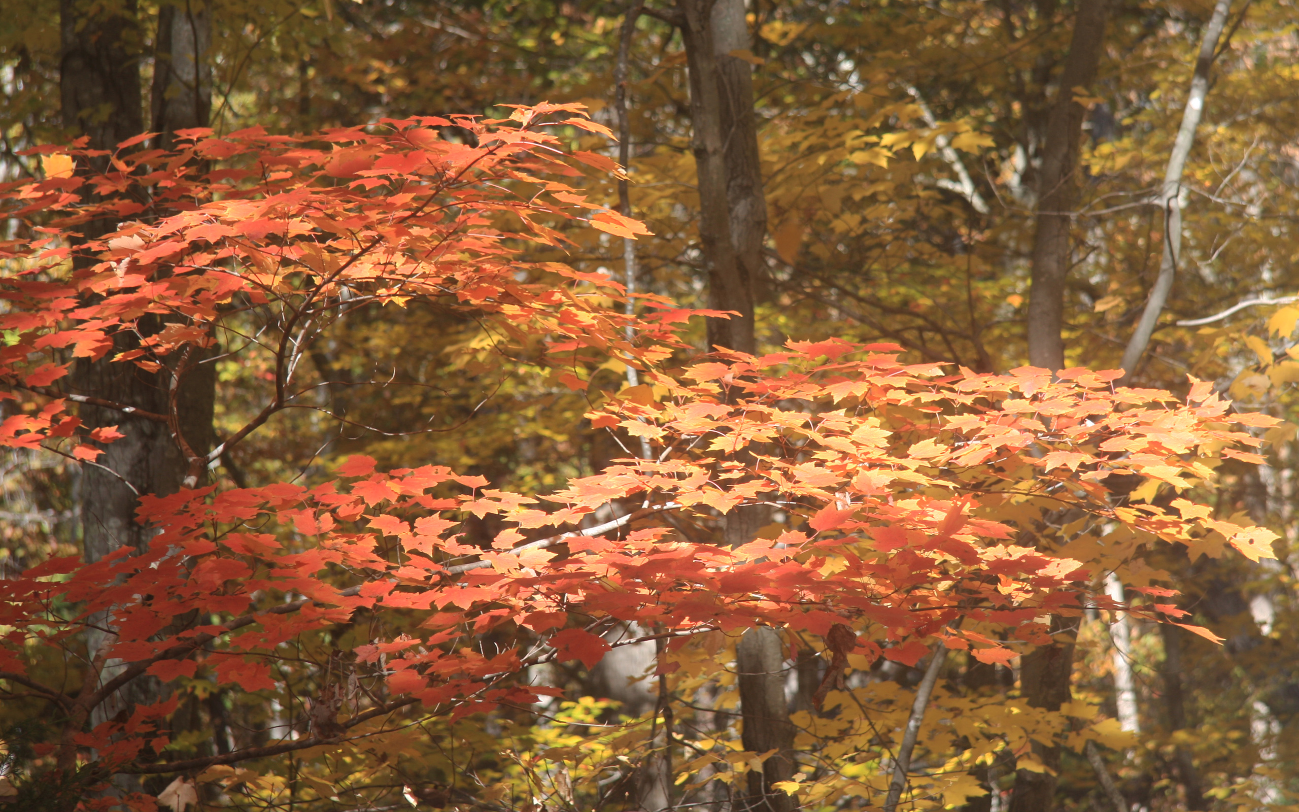 Drift of red and gold autumn leaves on Red Maple branches, Duke Forest Korstian Division, North Carolina USA.